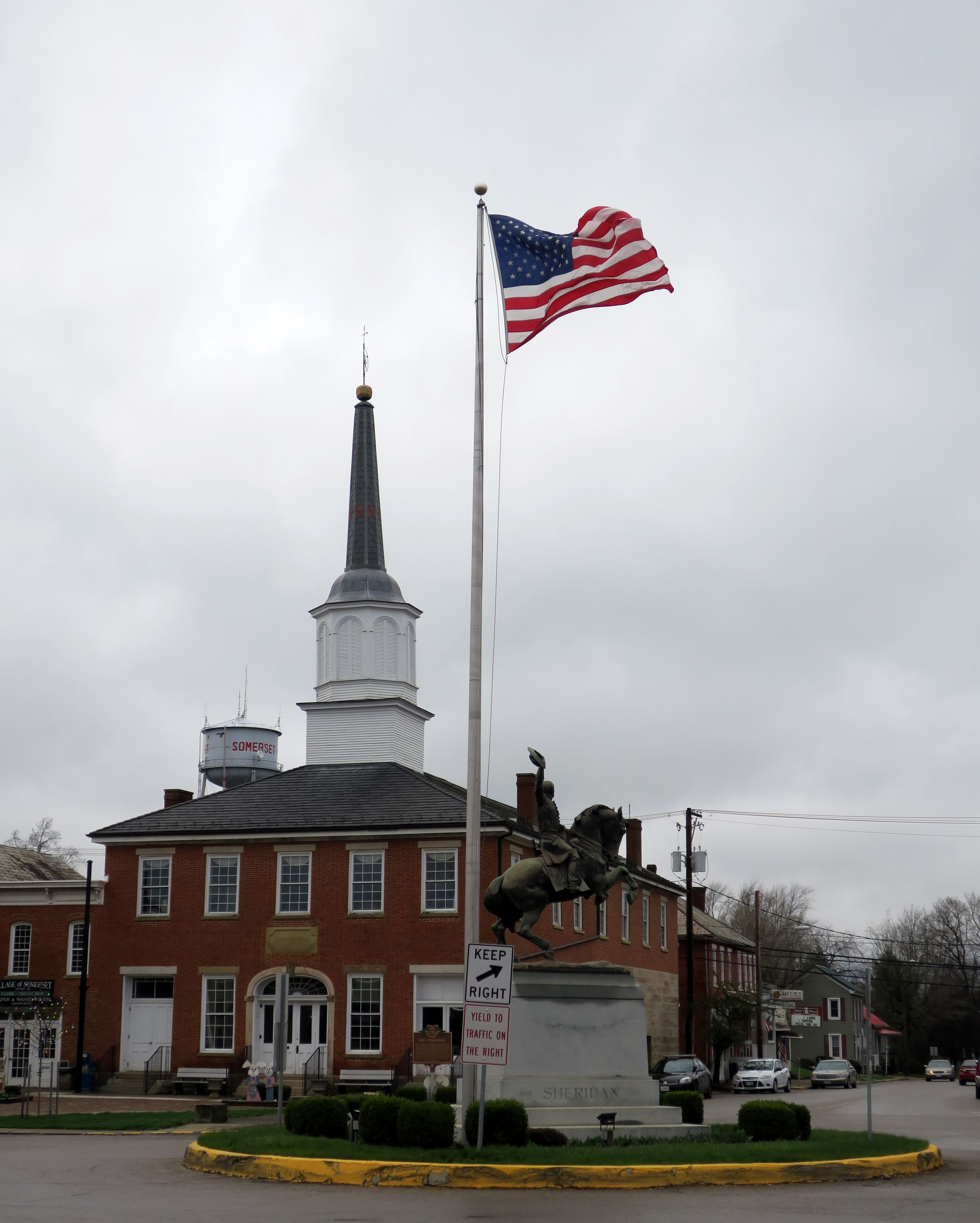 Old Perry County Courthouse with Sheridan Monument and water tower (Somerset, Ohio)